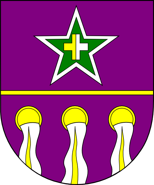 Coat of arms (shield only) of Antonín Eltschkner, auxiliary bishop of Prague (1933 - 1961), dean of the metropolitan chapter of Prague (1947 - 1955).